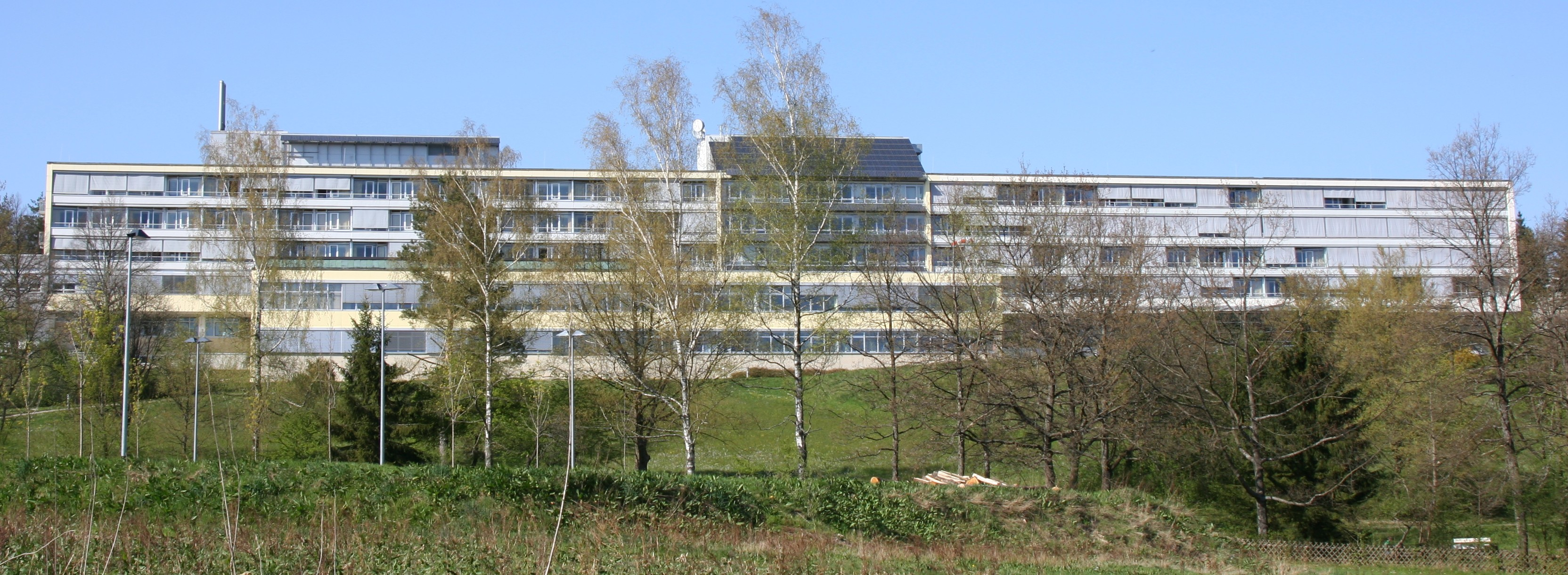 The clinic in Löwenstein from the South)